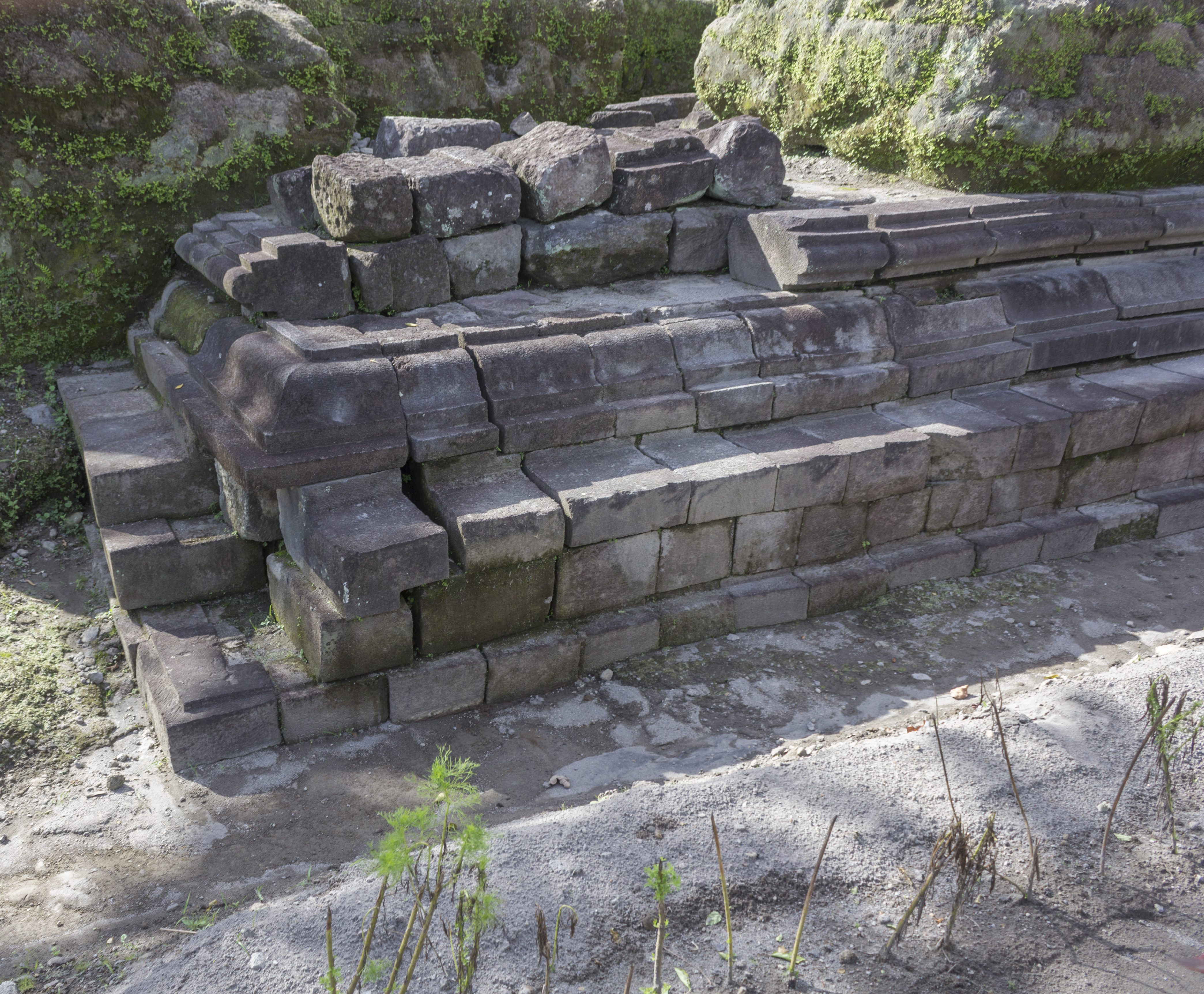 Partially excavated base of Kadisoka Temple, in Sleman, Yogyakarta